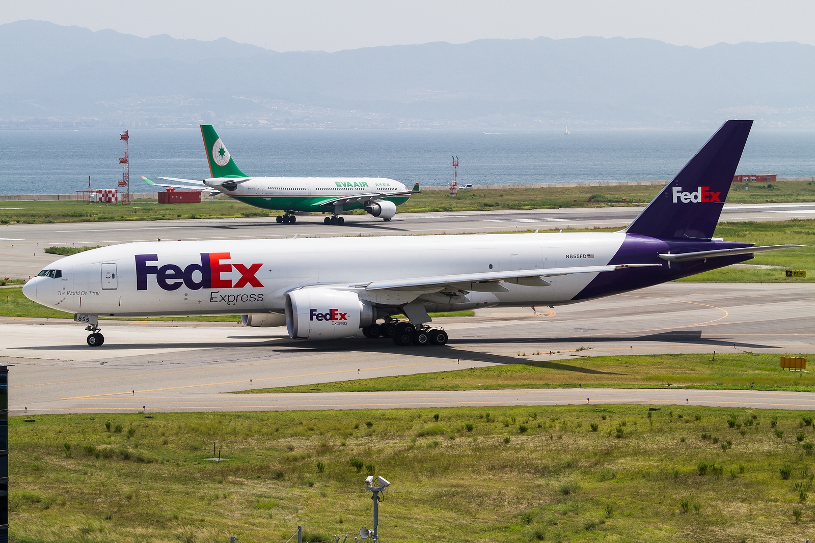 Aircraft: Boeing B777-FS2 N855FD(cn: 37726/832) Airline: FedEx Express - FDX Headquarters: Memphis, Tennessee, United States 21/07/2013 Kansai International Airport(KIX/RJBB), Japan